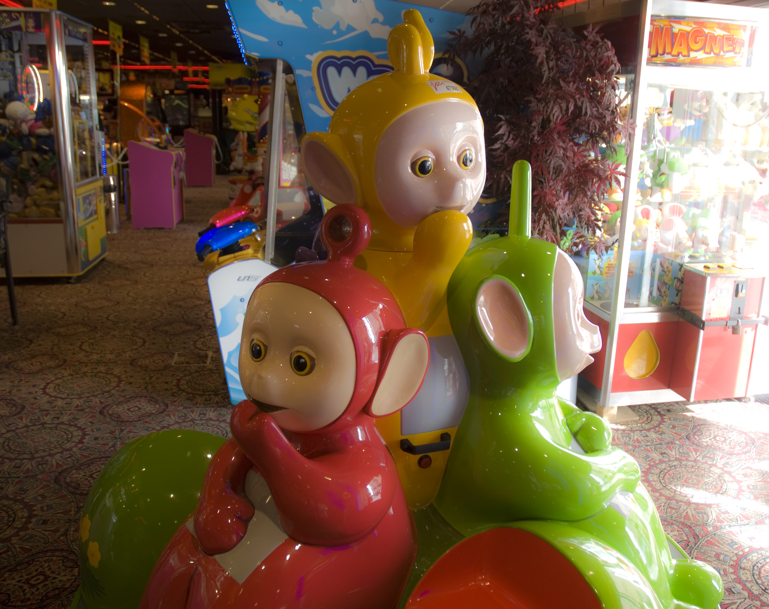 The Teletubbies are still here 2011